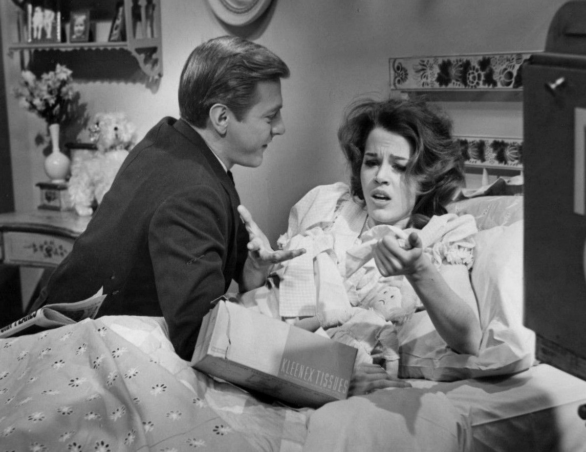 Photo from a television presentation of the W. Somerset Maugham story A String of Beads. George Grizzard played Walter Harmon, a law student, and Jane Fonda played Gloria Winters, his fiancee. The item has no copyright markings on it as can be seen in the links above.